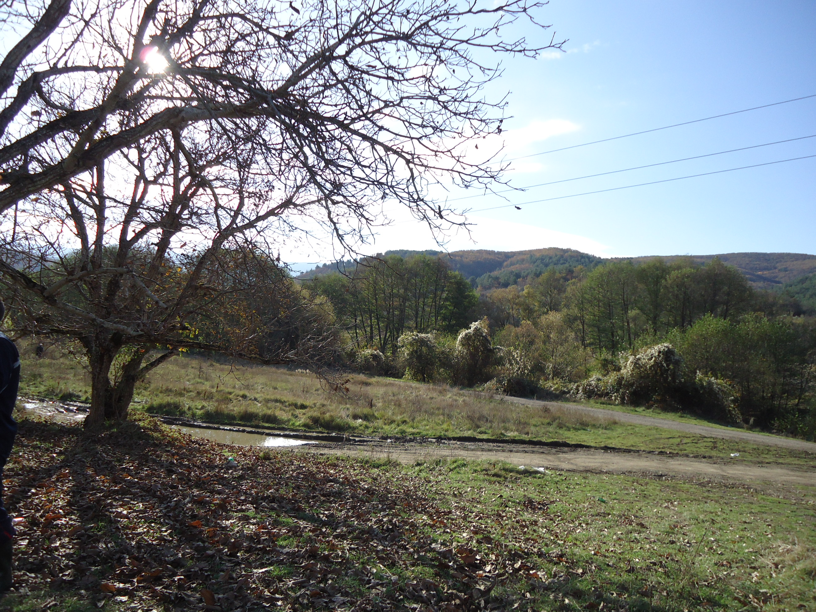 Urochishche (site of the former village) Shelkovichnoe, Bakhchisarai region, Crimea.